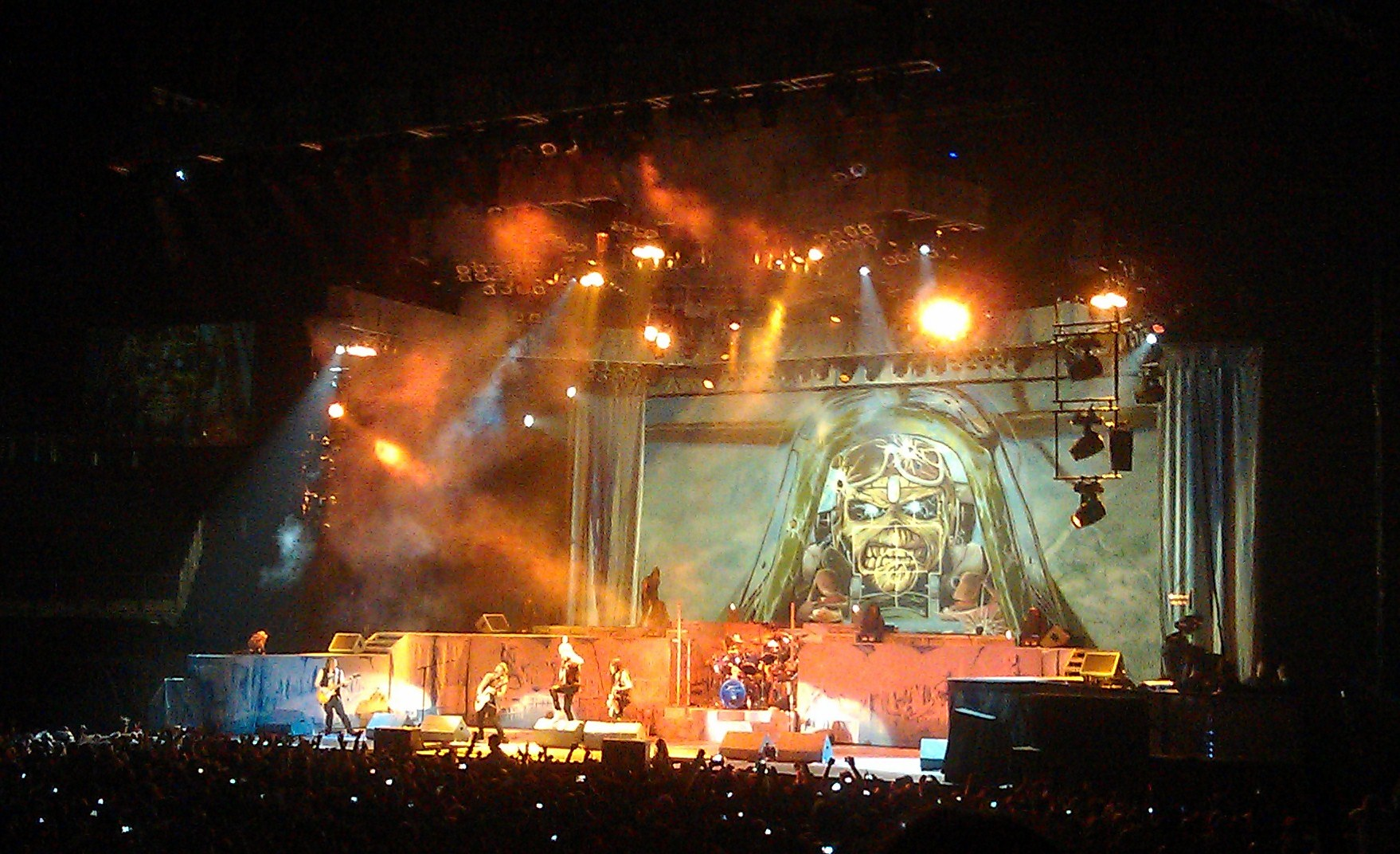 Iron Maiden performing Aces High in London, 4 August 2013